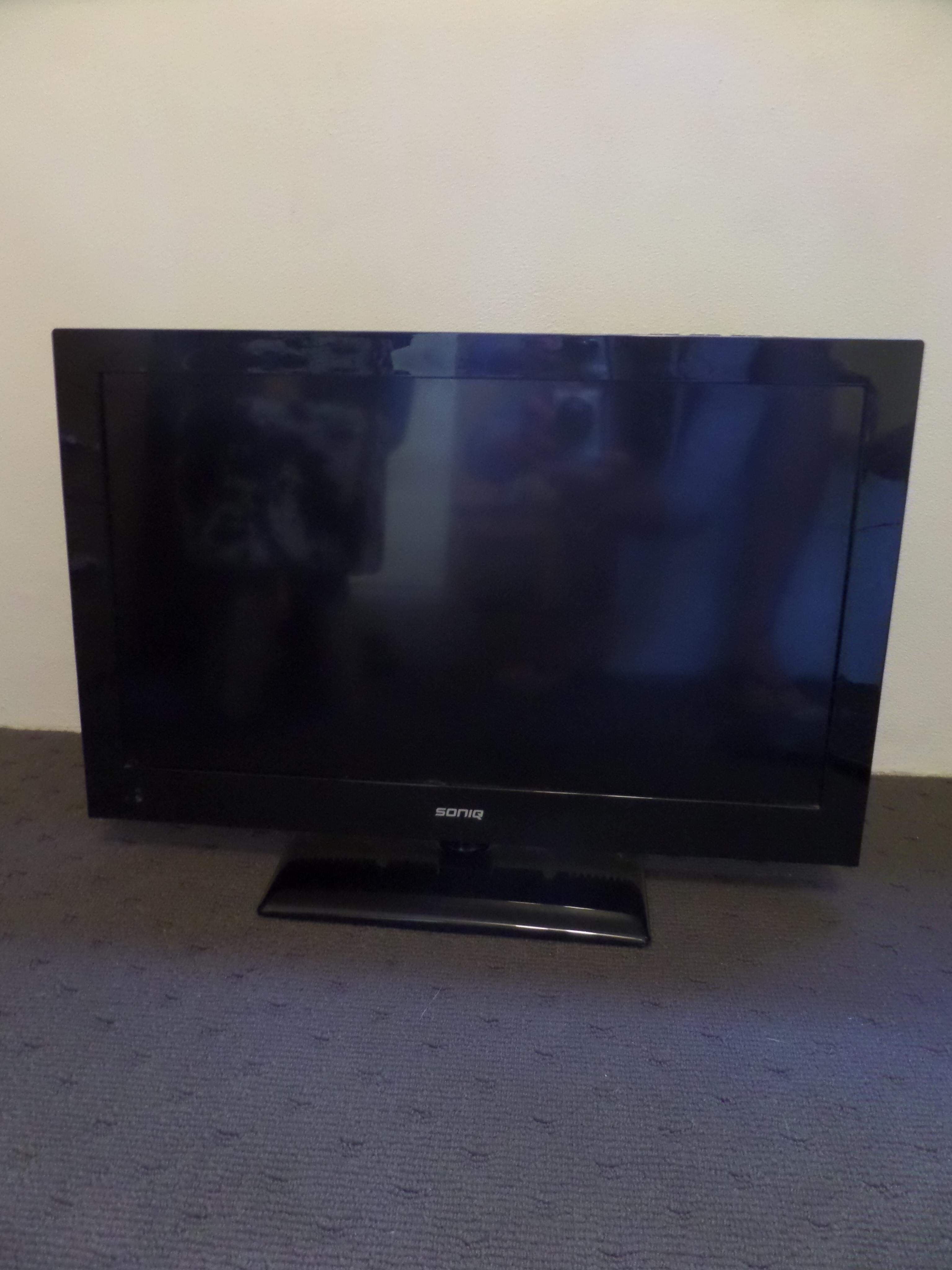 Modern SONIQ TV